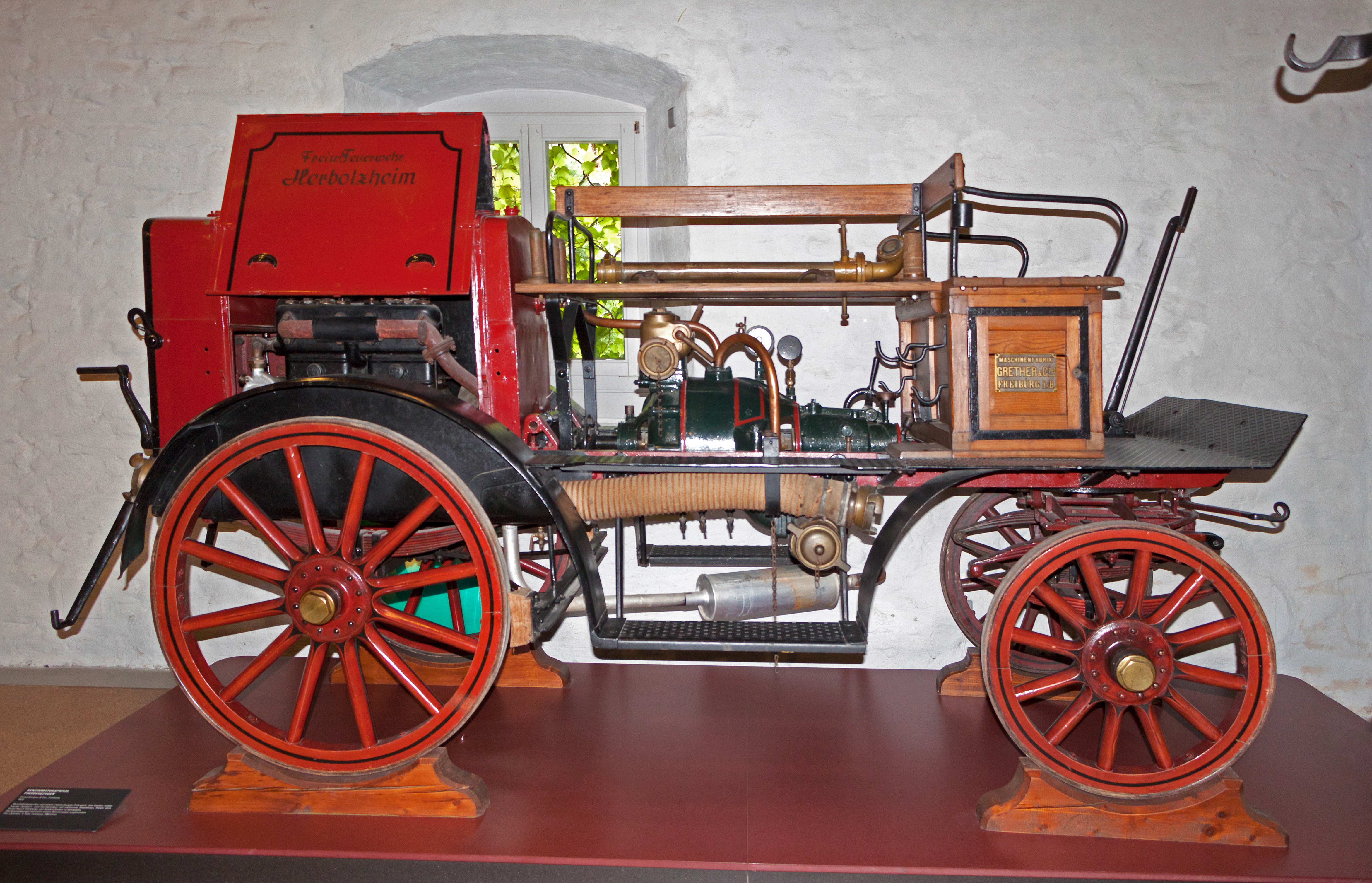 Horse-drawn petrol fire engine by Grether & Cie., 1922, Freiburg, Germany; Feuerwehrmuseum Salem, Baden-Württemberg, Germany.